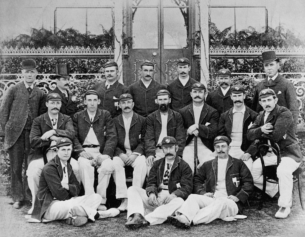 Scan of the 1893 Australia national cricket team. Back row (l-r) Robert Carpenter (Umpire), V Cohen (Manager), Affie Jarvis, Walter Giffen, William Bruce, Alick Bannerman, Bob Thoms (Umpire) Middle row (l-r) Harry Trott, Hugh Trumble, George Giffen, Jack Blackham (Captain), Jack Lyons, Bob McLeod, Charles Turner Front row (l-r) Harry Graham, Arthur Coningham, Syd Gregory